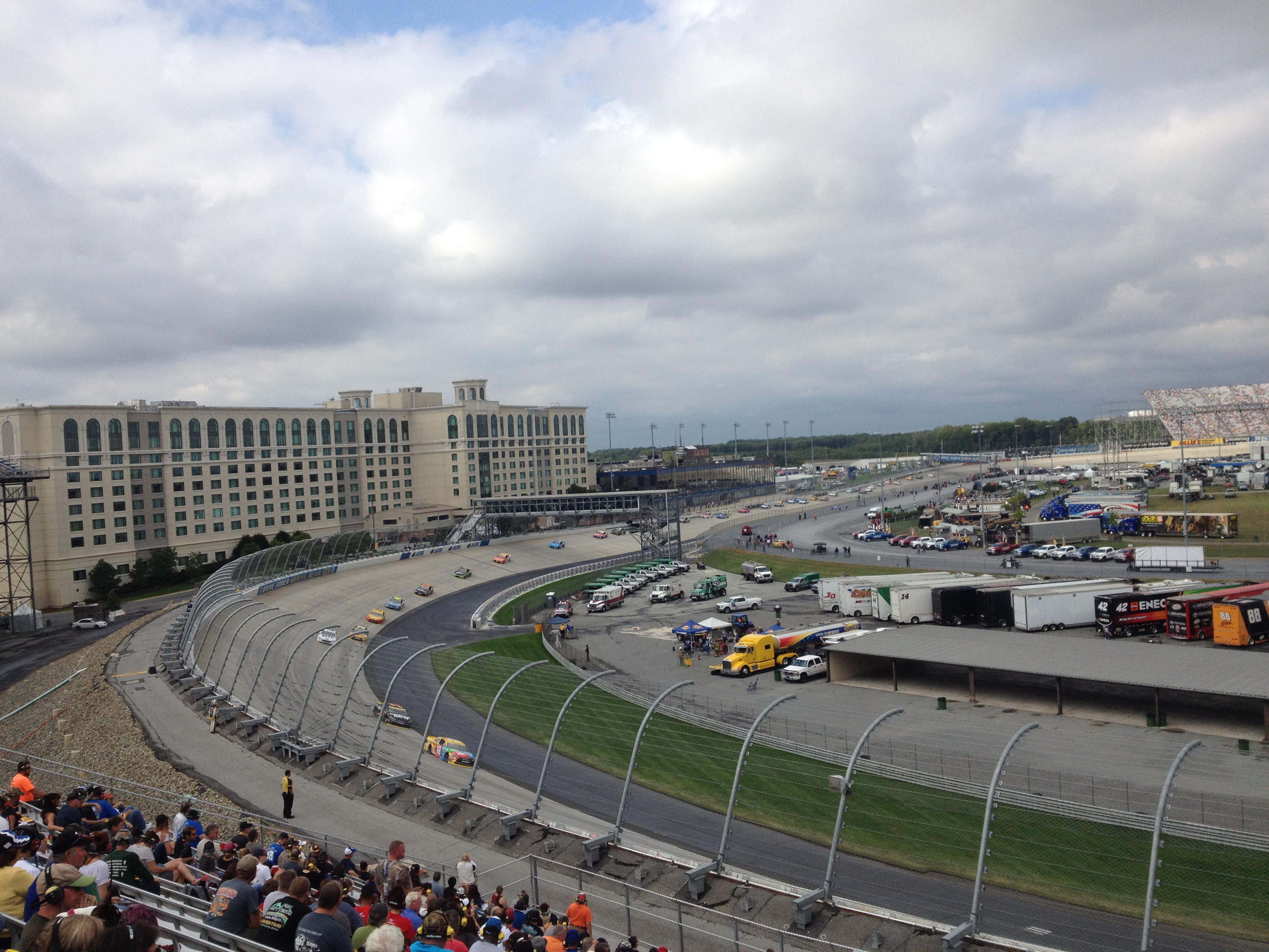 The 2016 Citizen Soldier 400 at Dover International Speedway viewed from between turns 3 and 4, with Kyle Busch (#18) leading eventual race winner Martin Truex Jr. (#78) and the rest of the field early in the race.